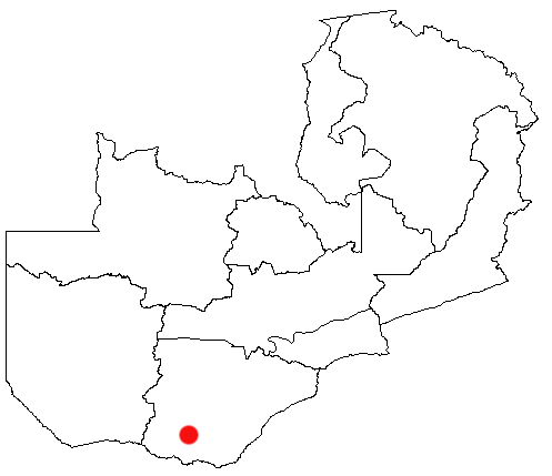 Zimba, Zambia Location Map; created with the GIMP.